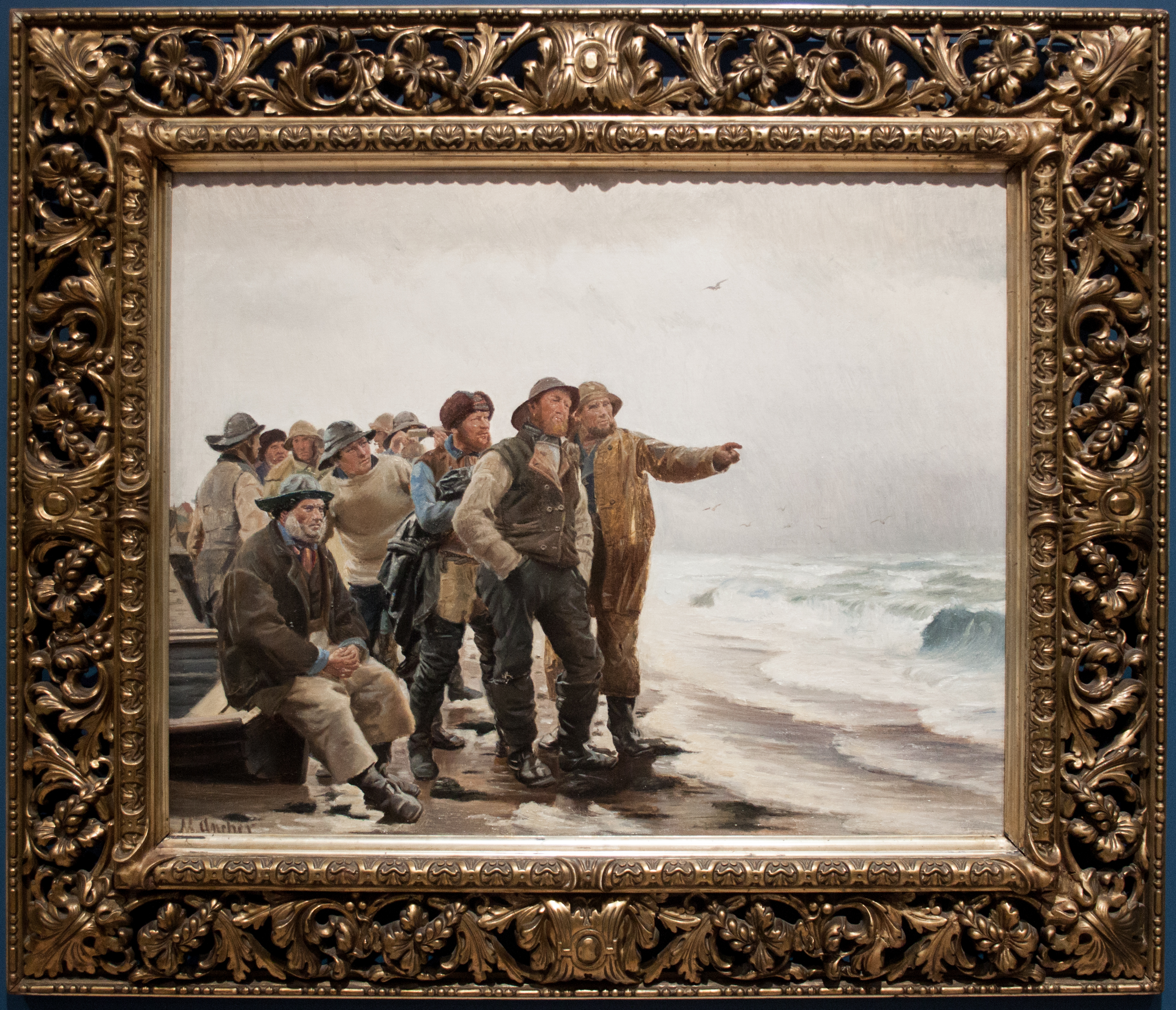 The experts at Bruun Rasmussen saw this painting as a repeat - by popular demand - of Ancher's larger 1879 painting with the same title. That version was bought by king Christian IX of Denmark and still belongs to the Danish Royal Family.